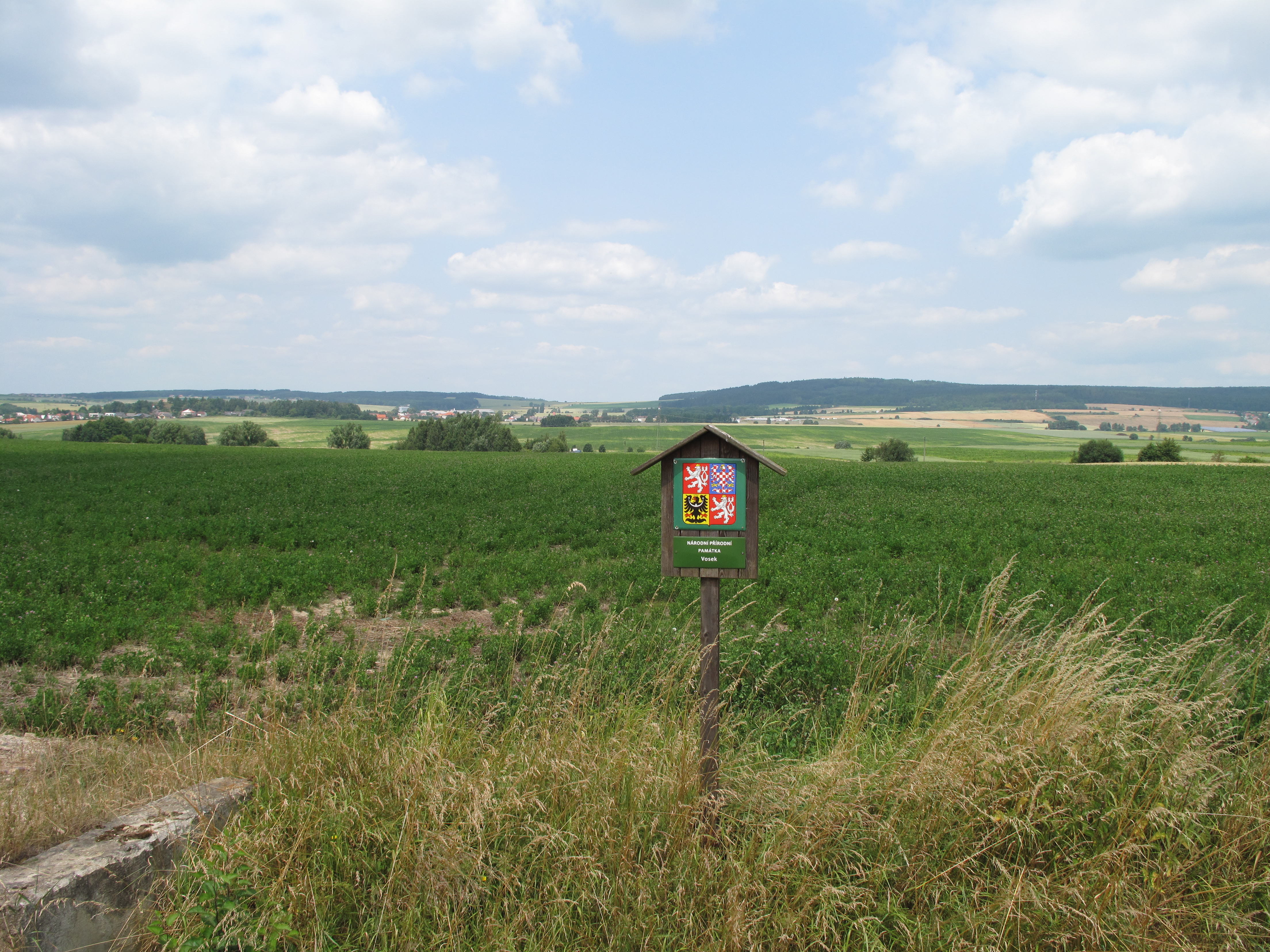 Info table in natural memorial Vosek, Rokycany District, Czech Republic.